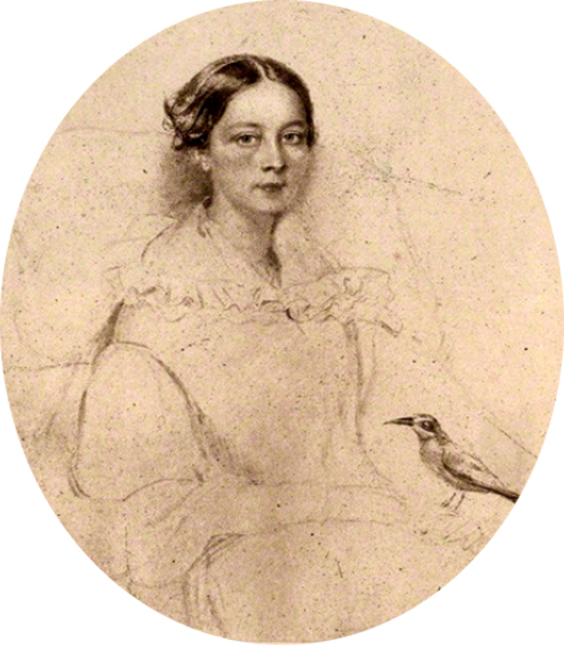 Emily Shore, diarist, 1838